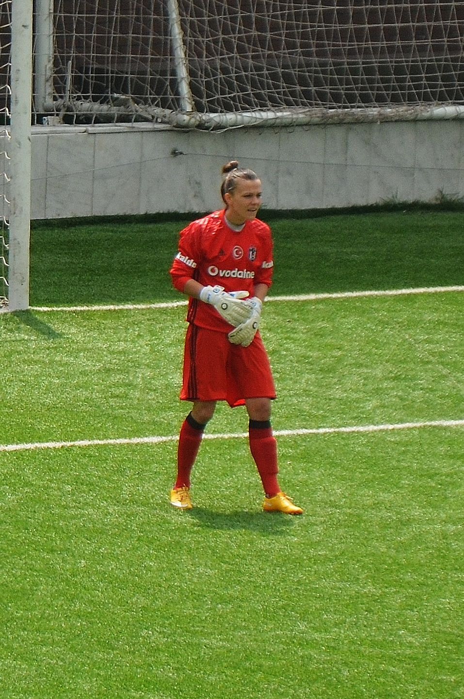 Ekaterina Ulasevich playing for Beşiktaş J.K. in the 2016-17 season's play-off home match against 1207 Antalya Döşemealtı Belediyespor